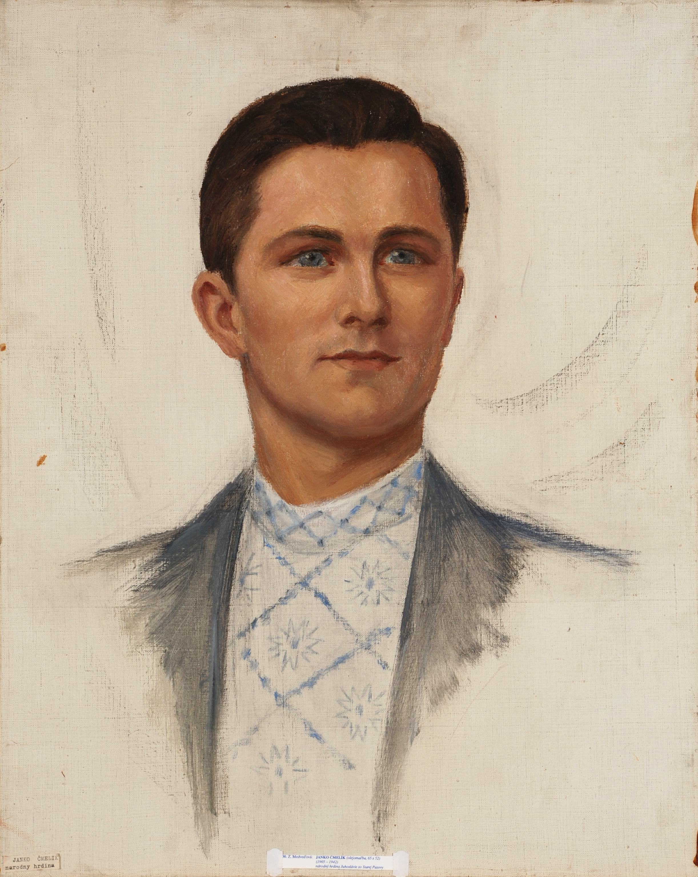 A portrait of Janko Čmelik (1905-1942), participant of the National Liberation War and National hero of Yugoslavia. Inventory number 112. Srpski (latinica): Portret Janka Čmelika (1905-1942), učesnika Narodnooslobodilačke borbe i narodnog heroja Jugoslavije. Inventarski broj 112.